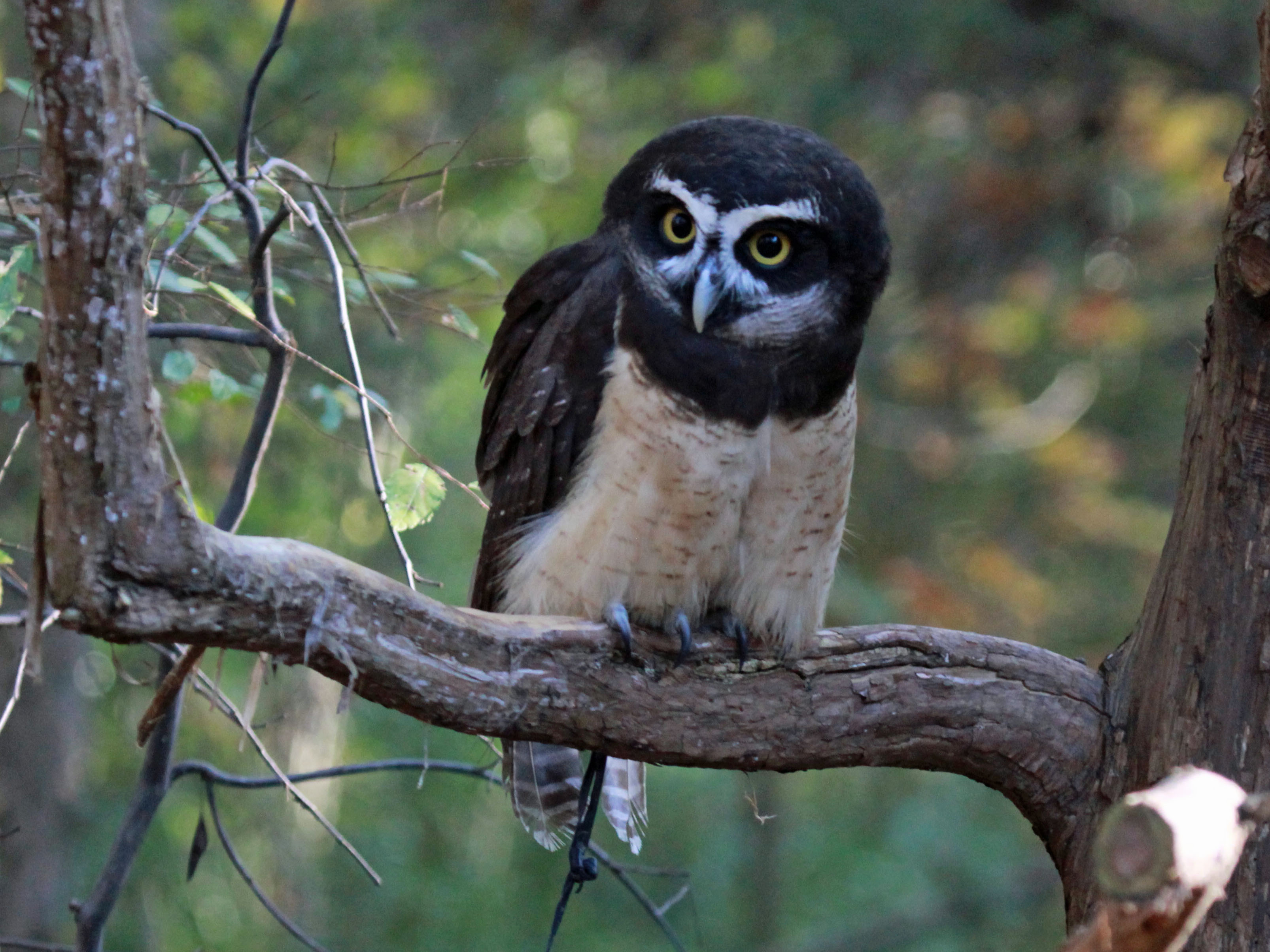 Spectacled Owl (Pulsatrix perspicillata) - Carolina Raptor Center at Huntersville, North Carolina